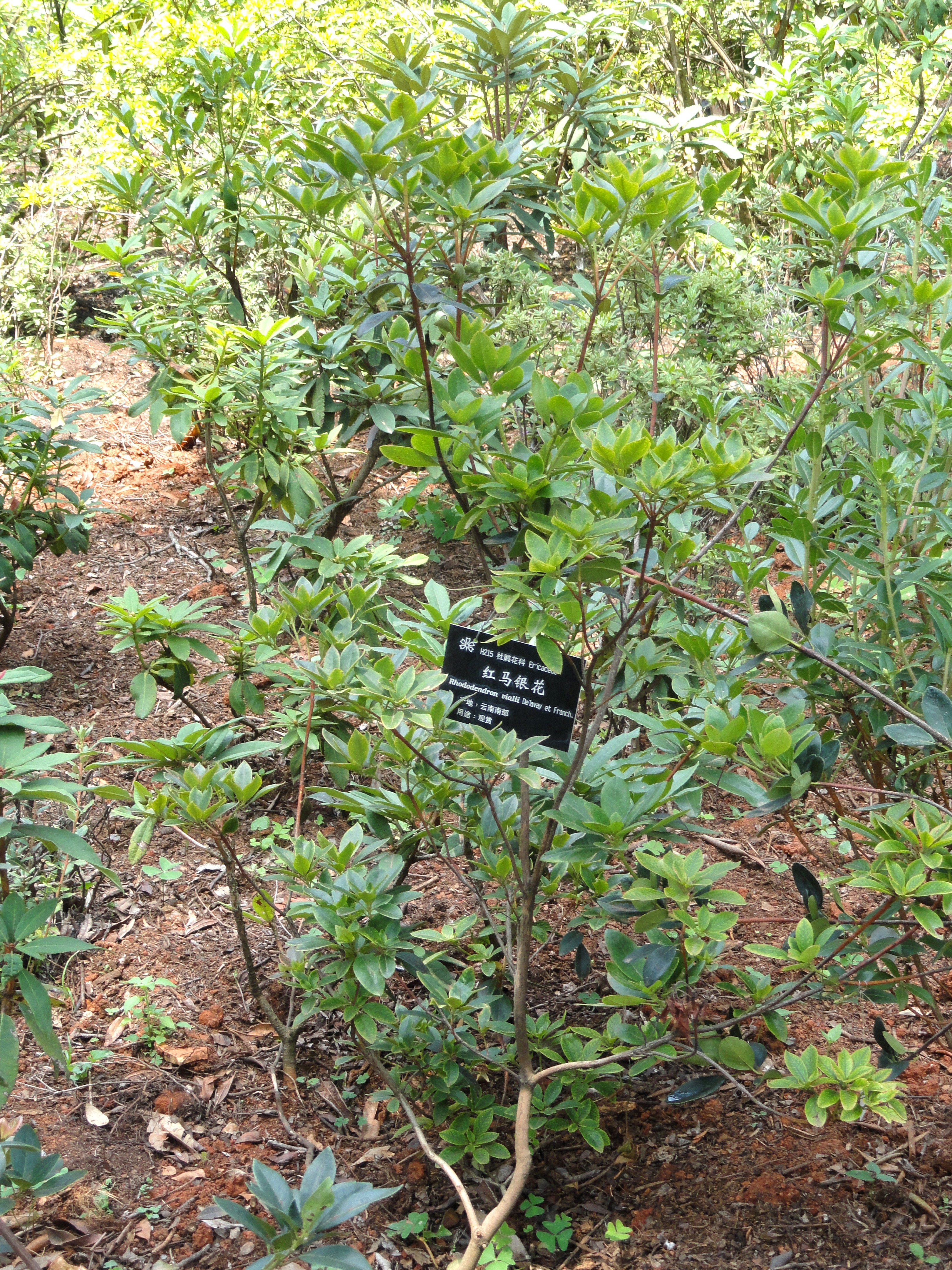 Rhododendron specimen in the Kunming Botanical Garden, Kunming, Yunnan, China.